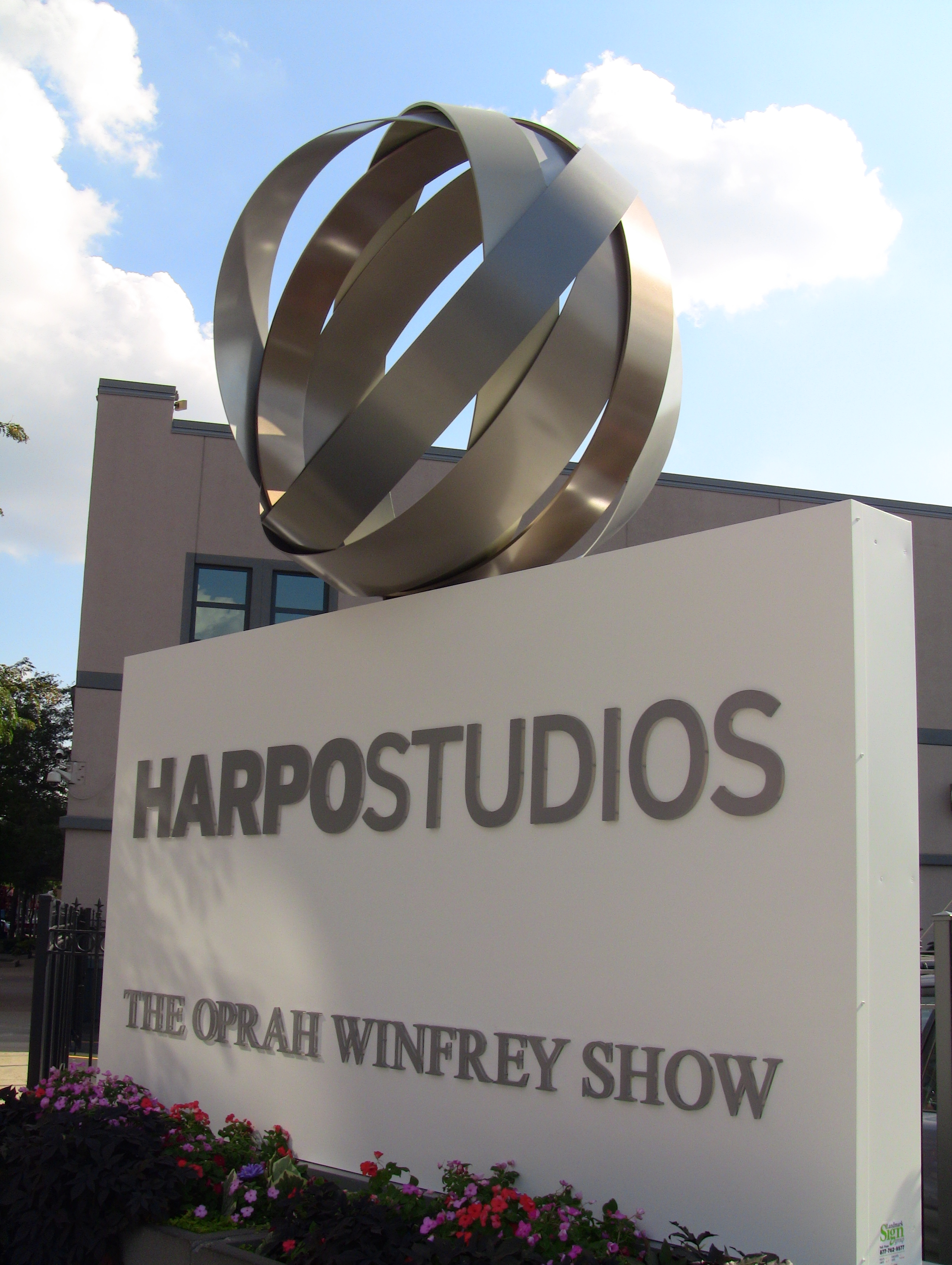 Oprah Winfrey: Harpo Studios new logo and sign located outside the main studio in Chicago, Illinois